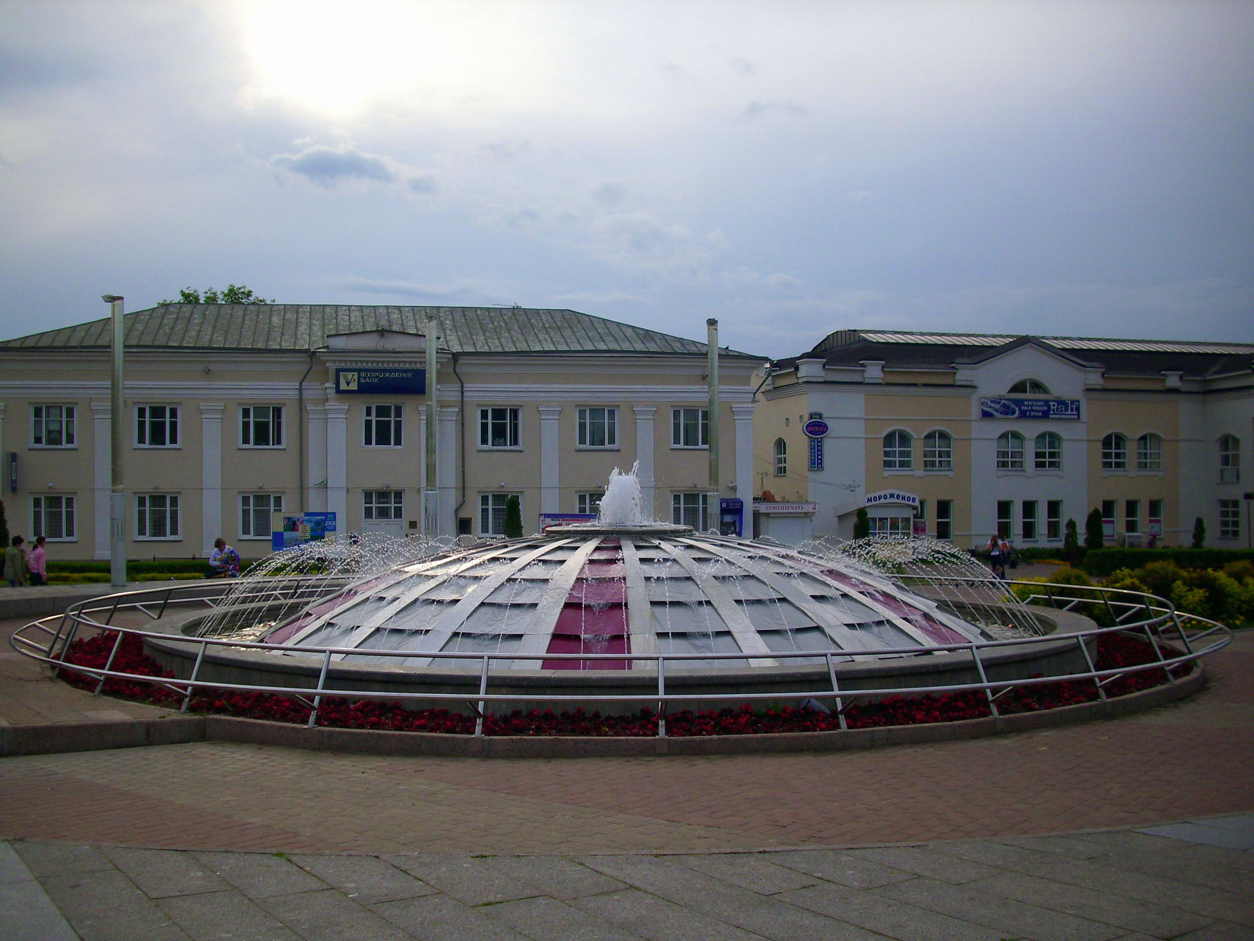 Fountain in Dmitrov (Moscow oblast)